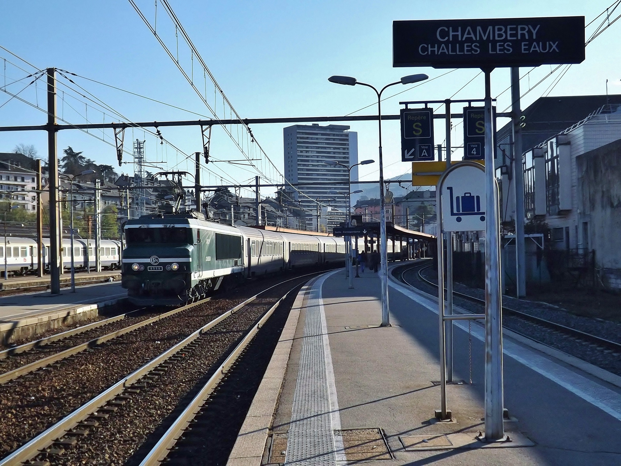 Sight of the old SNCF Class CC 6558 at the head of a special passenger train bound for the festival of Lights of Lyon, in the city of Chambéry railway station, in Savoie, France.